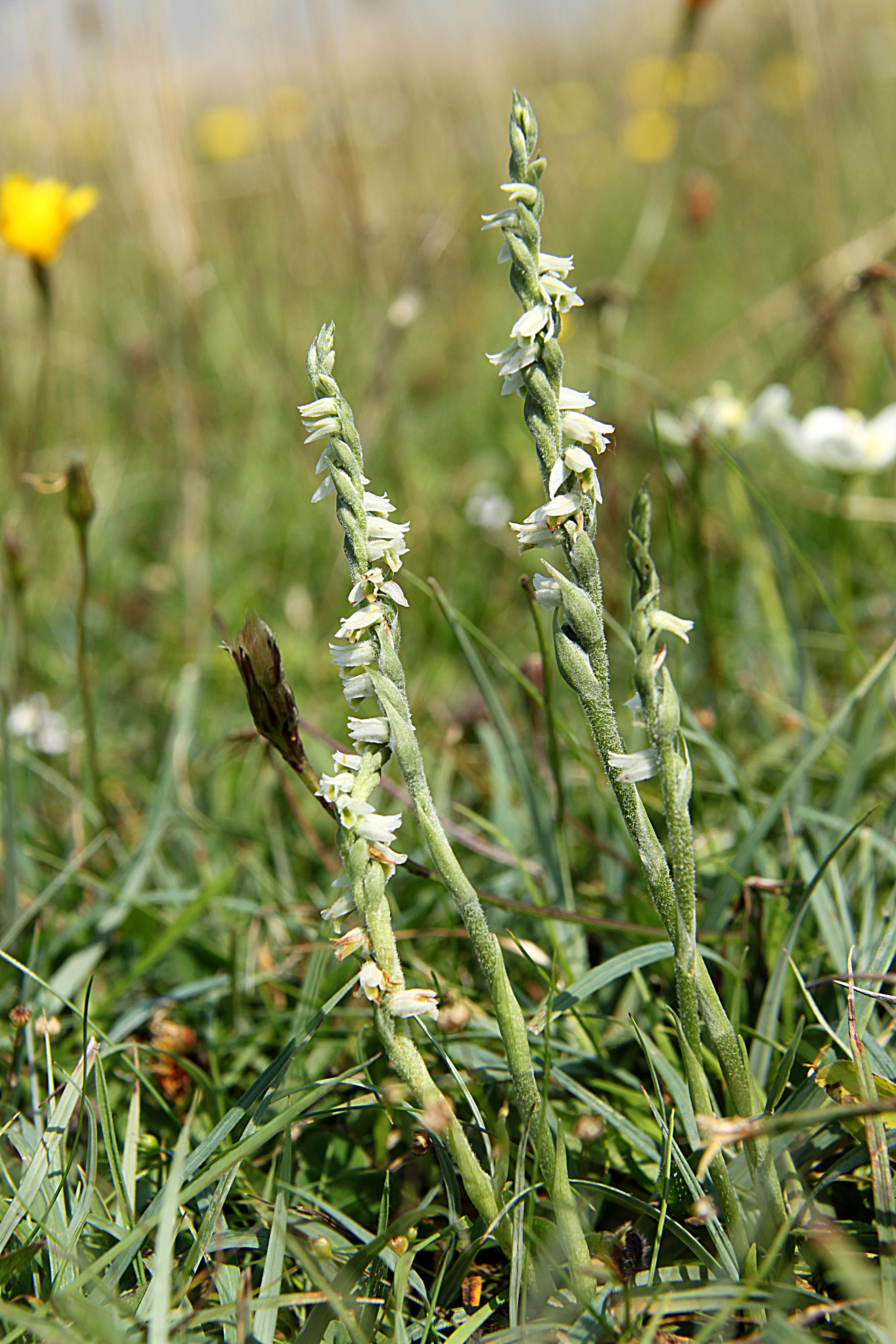 Spiranthes spiralis, photograped at the Hompelvoet, Grevelingenmeer, The Netherlands on 30 August 2015.